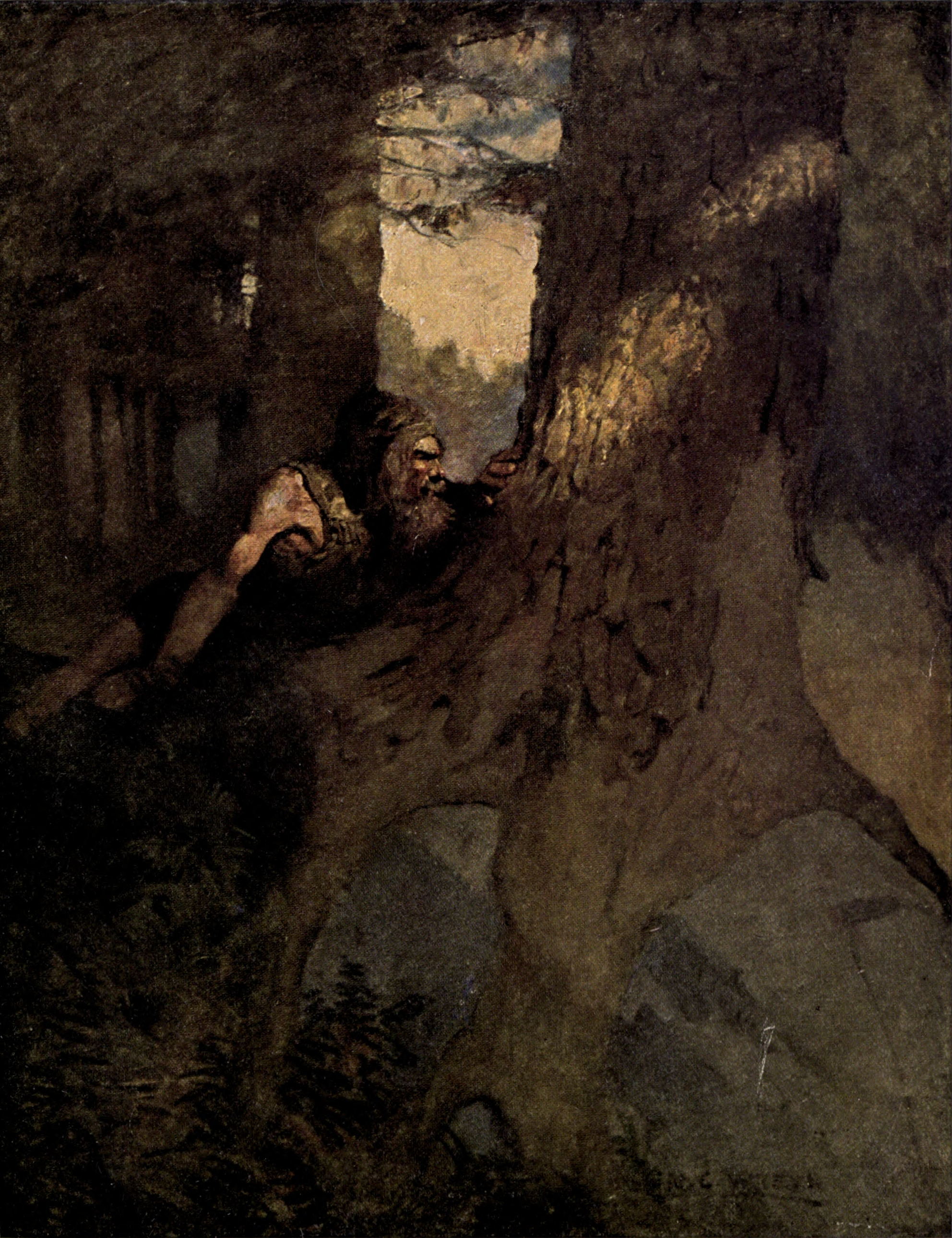 Ben Gunn by N. C. Wyeth from 1911 edition of Treasure Island